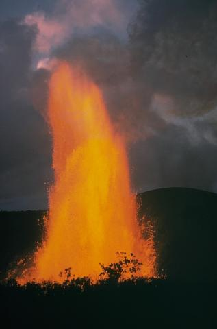 Kilauea Iki lava fountain, Kilauea, Hawaii, United States